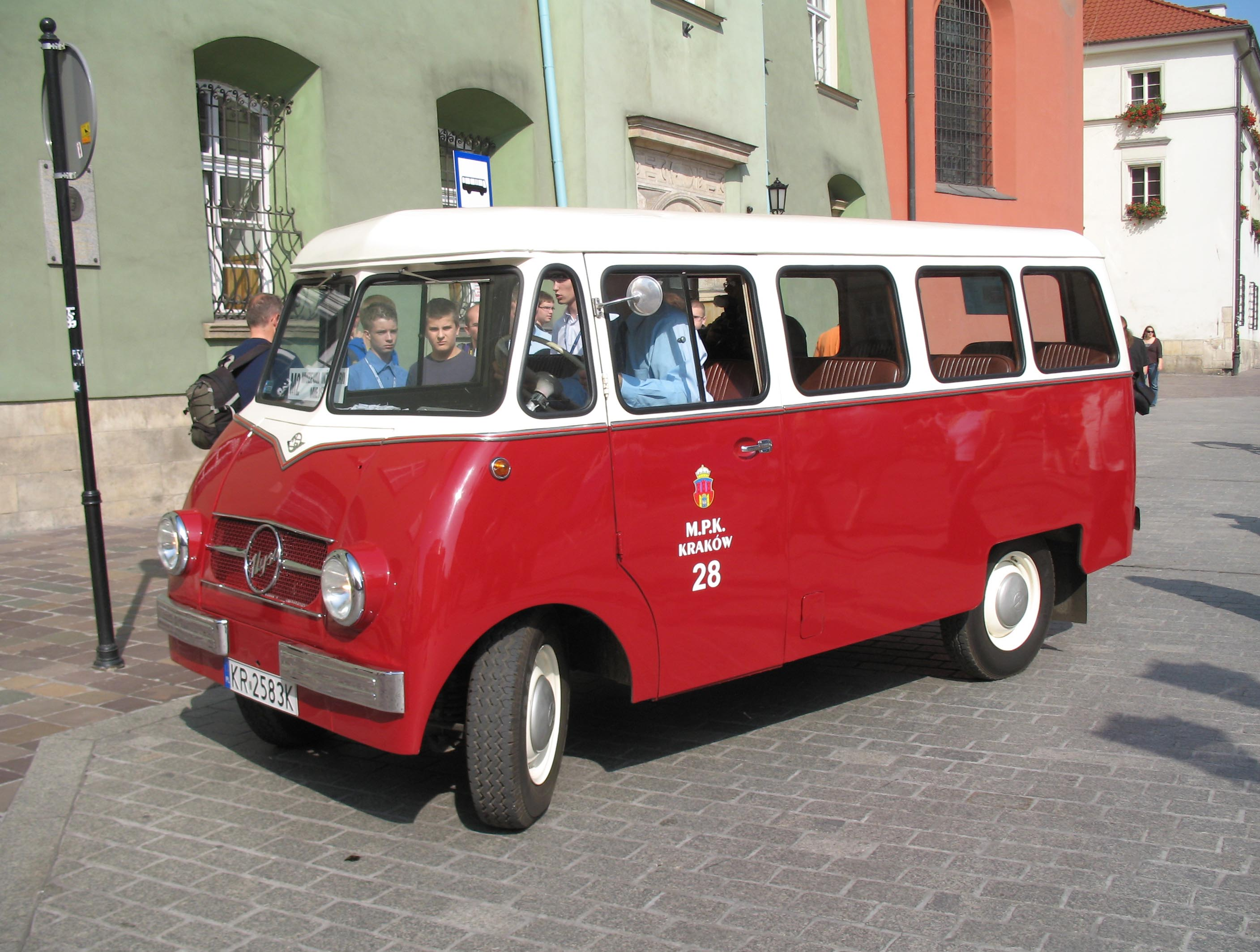 Nysa N59M minibus (#28) in Kraków, Poland. Built 1959, MPK Kraków operator.